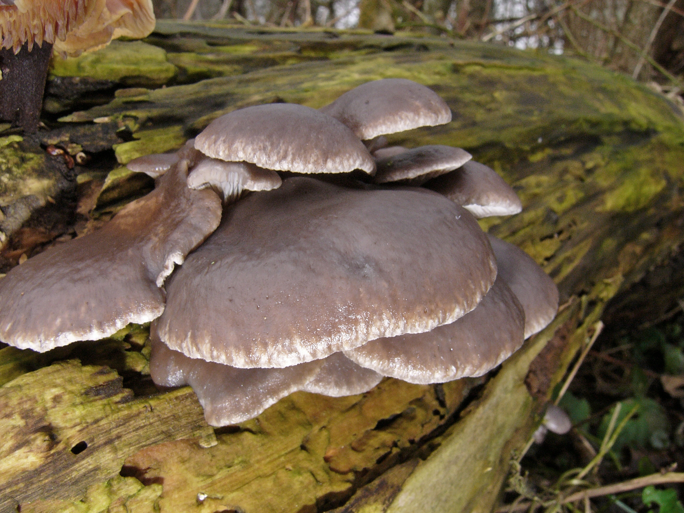 The making of this document was supported by the Community-Budget of Wikimedia Germany.